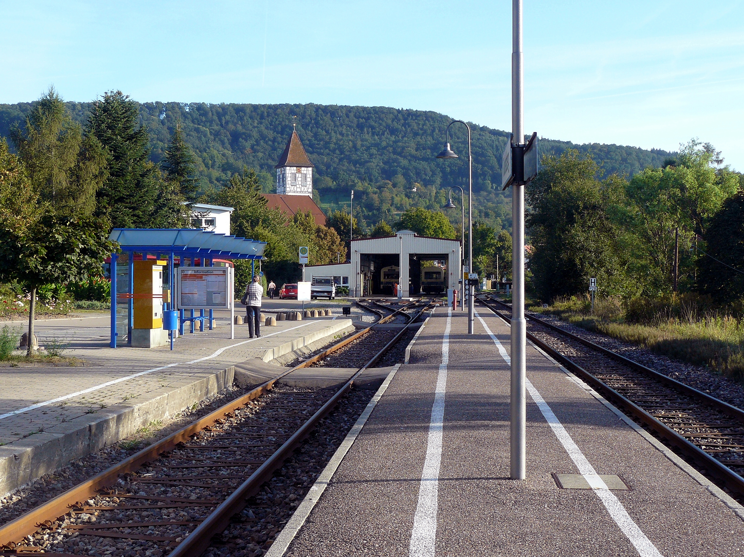 The train station in Rudersberg, Germany